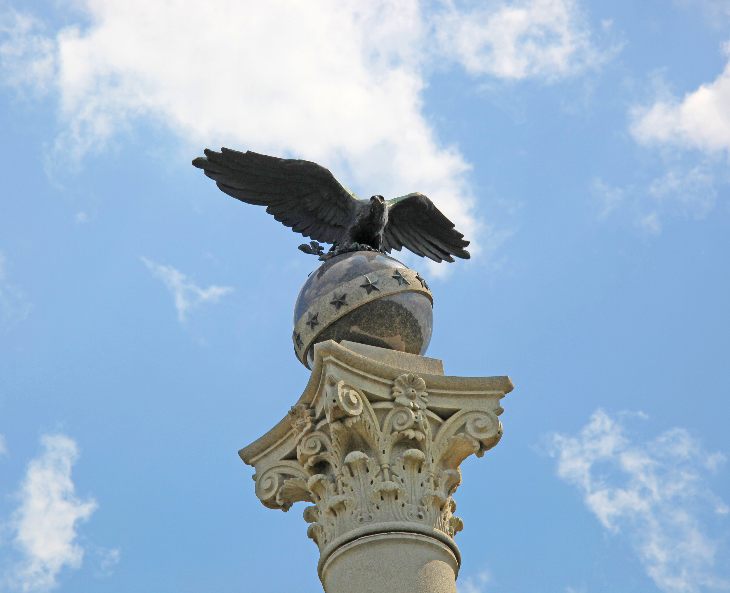 Looking up at the capital, sphere, and eagle on top of the Spanish-American War Memorial at Arlington National Cemetery in Arlington, Virginia, in the United States. The memorial is located in the easternmost portion of Section 22. The National Society Colonial Dames asked for permission to erect a memorial in the cemetery to the war's dead in March 1901. Quartermaster General Marshall I. Ludington made some changes to the design, which was approved on October 23, 1901. The monument was dedicated by President Theodore Roosevelt on May 21, 1902. It was the first monument ever erected at the cemetery by a society of women. The monument consists of a column on a base, situated in a small plaza. The granite column from Barre, Vermont, is 50 feet high, Corinthian in style, and surmounted by a sphere of granite from Quincy, Massachusetts. The dark grey granite is highly polished, and with a band of rough granite lined with stars about the circumference. The sphere is tilted at a 15 degree angle, and a bronze eagle -- facing west, wings spread -- is mounted on the top of the sphere. The light grey square granite base as a highly polished black granite sphere 18 inches in diameter at each corner. Along the upper eage of the base are bronze stars, 5 inches wide. There are 11 stars on each side of the base (representing the 44 U.S. states at the time of the war). Bronze plaques commemorating the war dead adorn the front (west) and rear (east) of the base. The monument sits in a circular grassy space. Lawton Avenue circles the space. At the rear of the monument, across the roadway, are four cannon mounted on brick and concrete stands. The guns face northeast, east, southeast, and south. The two outer guns are captured Spanish bronze field artillery. The and are made of bronze. The two inner guns are made of steel, and came from U.S. Navy ships which served in the war. A bronze plaque on a granite marker was added to the front of the memorial plaza on October 11, 1964.